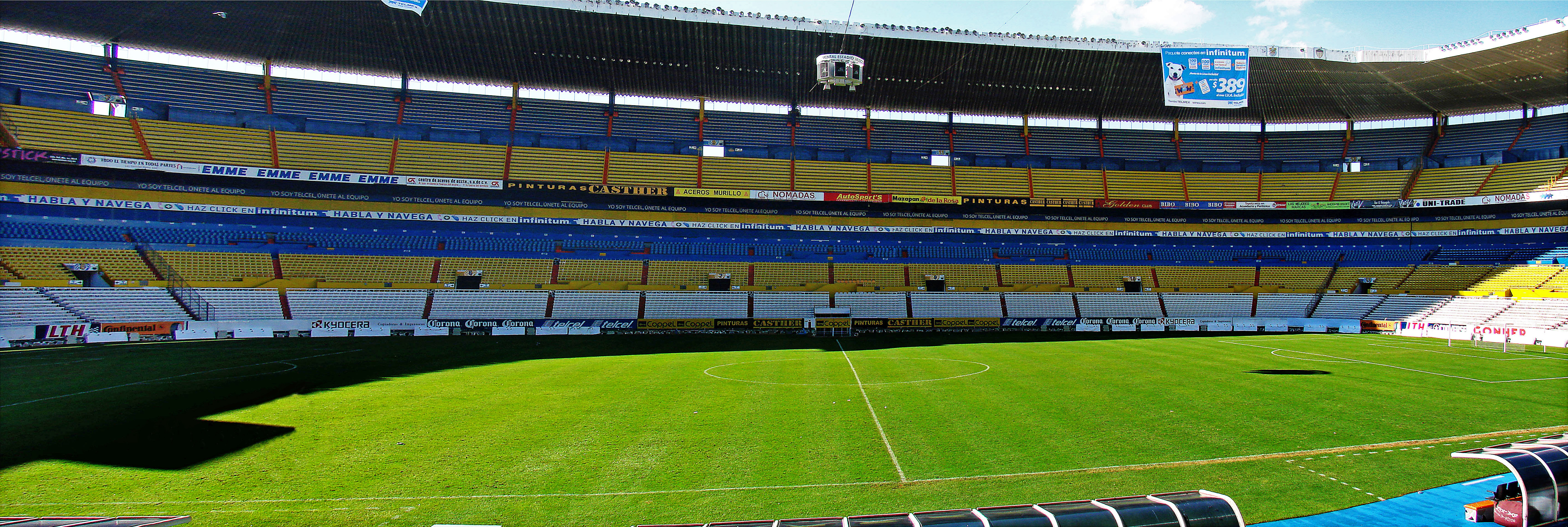 panoramic view of Jalisco Stadium. - Guadalajara, Jalisco, Mexico